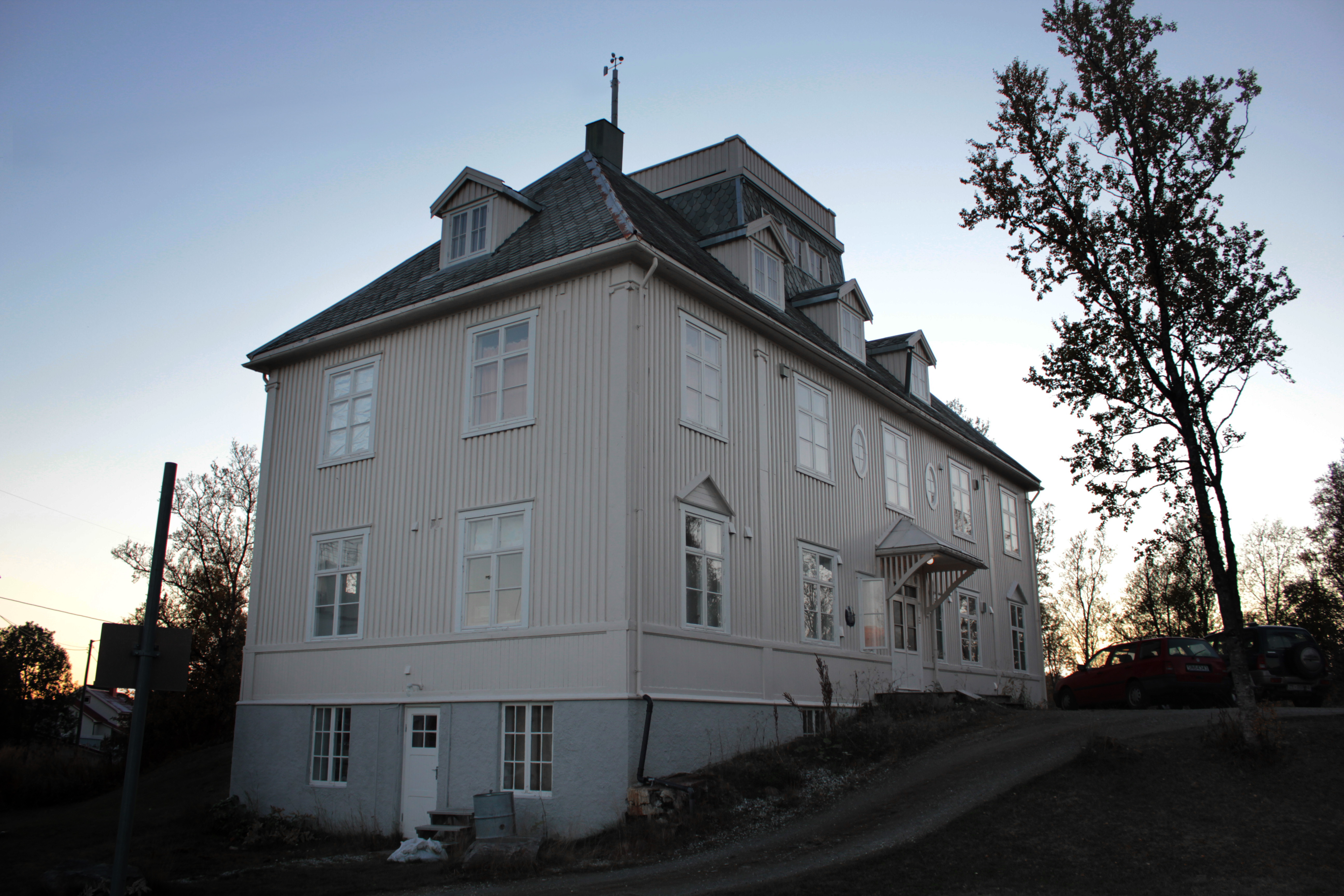 "Geofysen" (previously) metrology station in Tromsø Norway